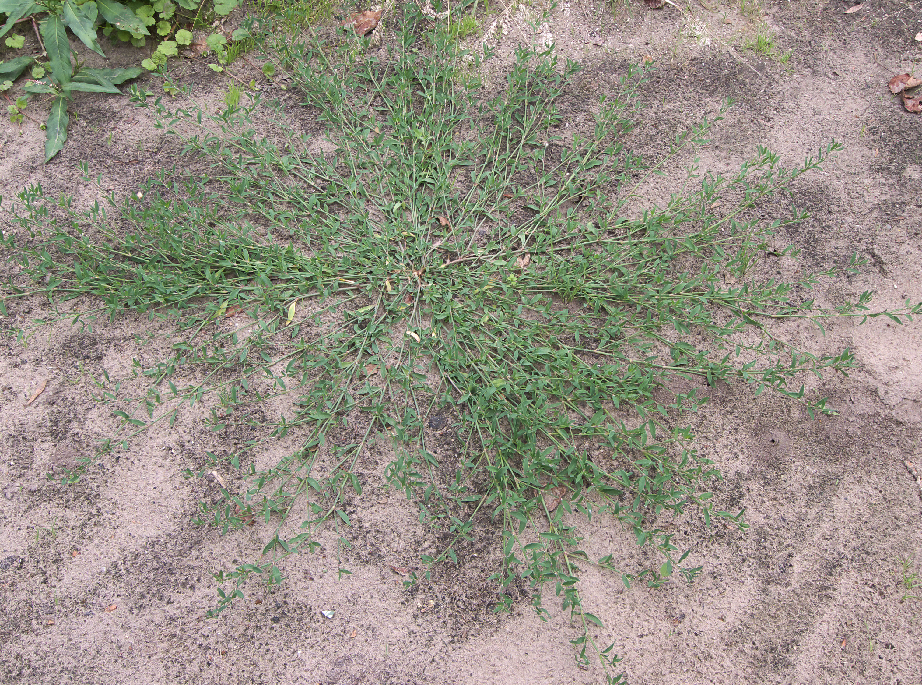 Polygonum aviculare plant